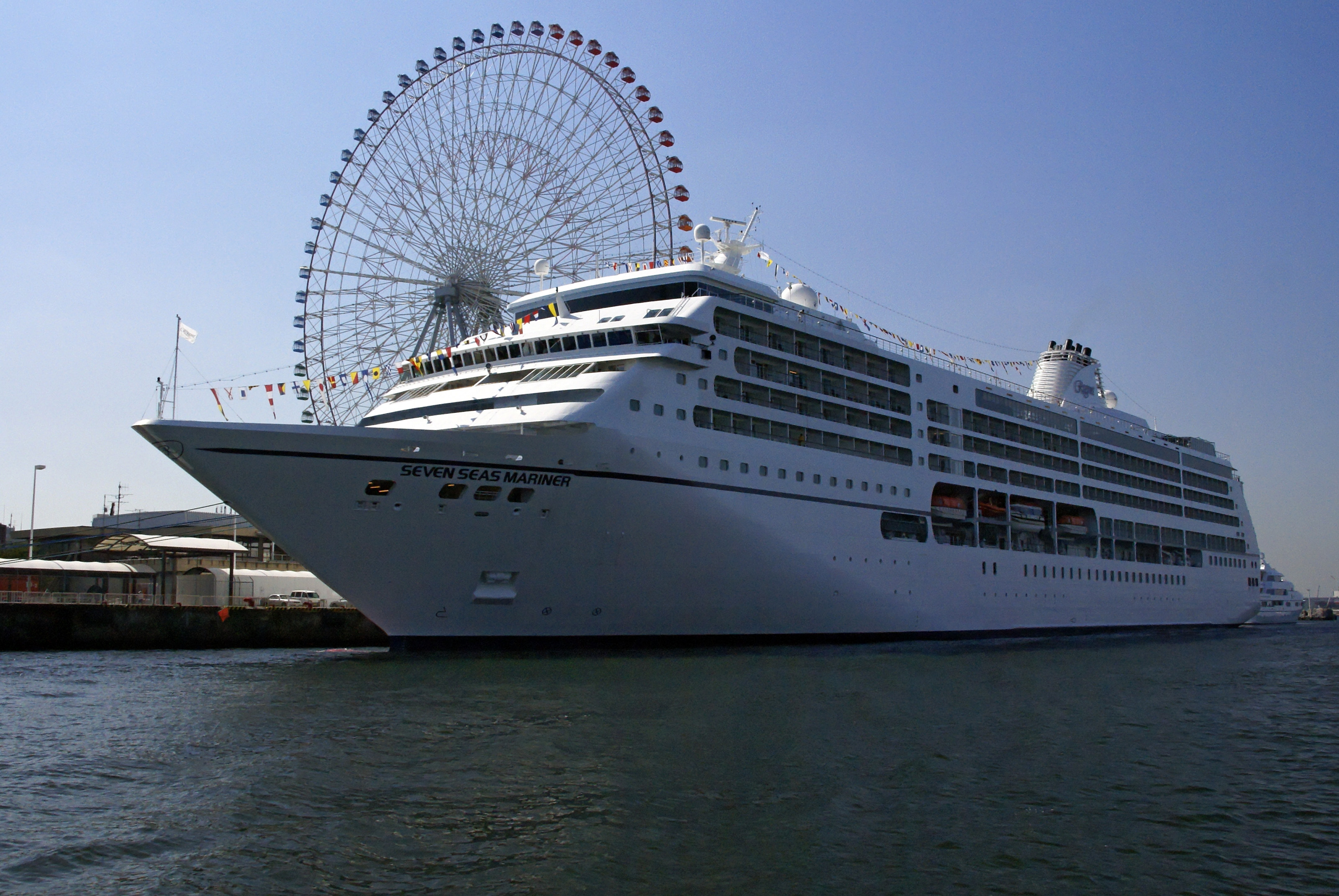 "SEVEN SEAS MARINER" at "Tenpozan Wharf" of the Osaka harbor ( Osaka, Osaka prefecture, Japan)